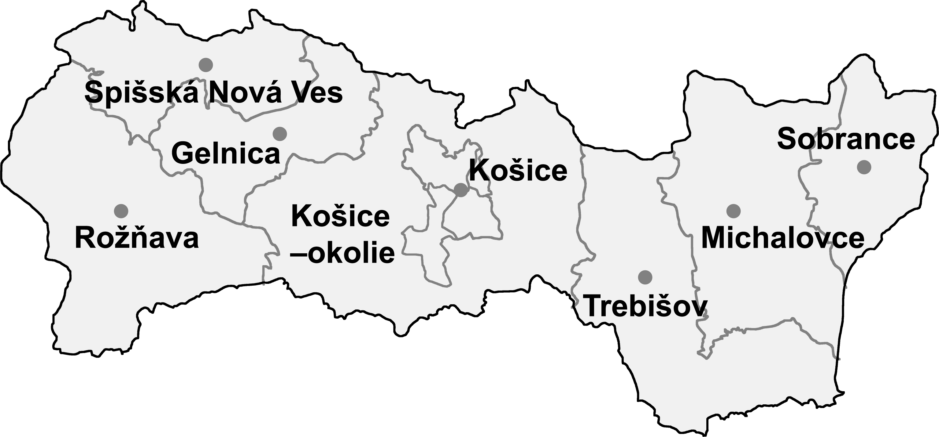 Košice region (kraj) with districts (okresy)